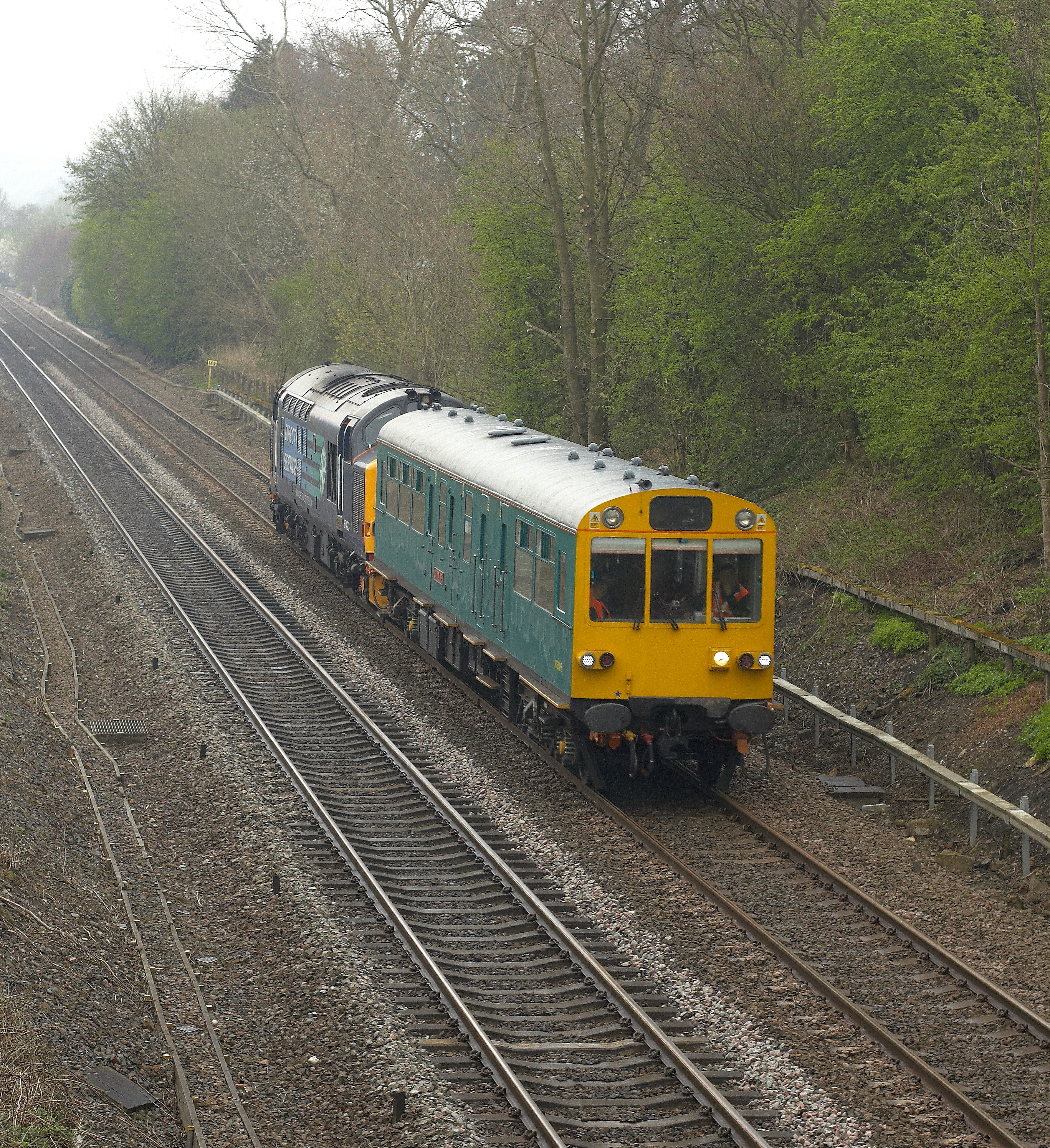 37423 propels inspection saloon"Caroline" past South Wingfield working 2Z74 Finsbury Park - Chesterfield / 5Z75 Chesterfield - Derby RTC